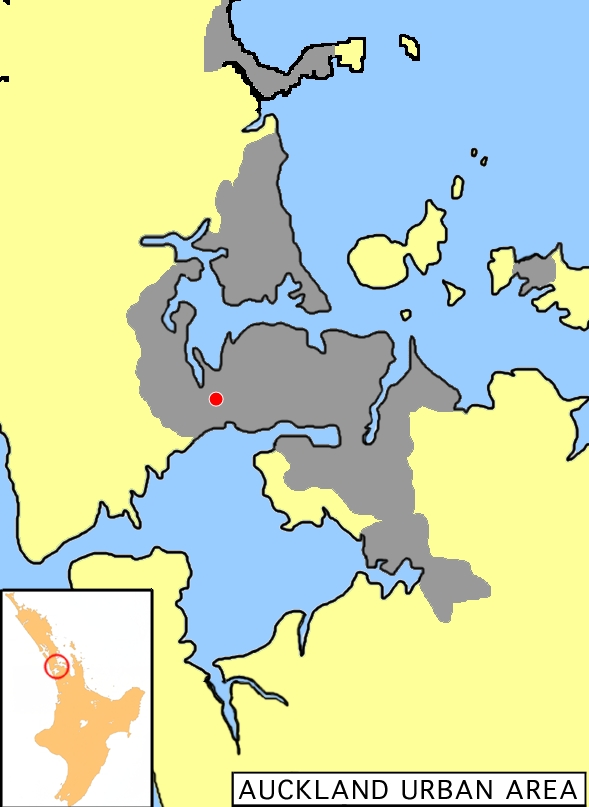 Location map of the Avondale urban district within Greater Auckland